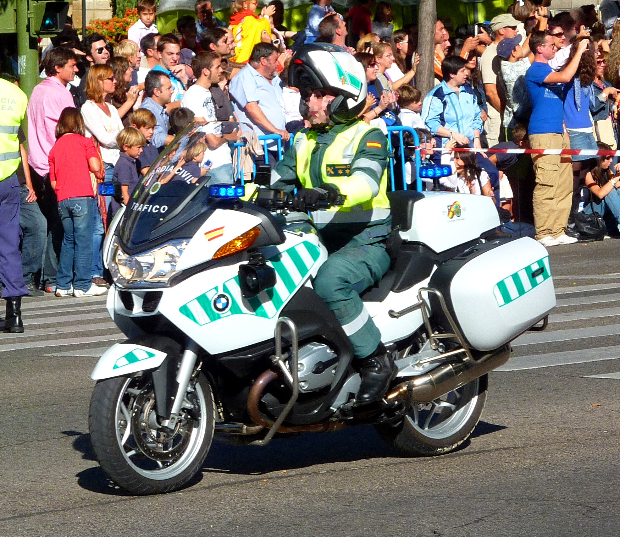 BMW R 1200 RT of the Highway Patrol of the Spanish Civil Guard.